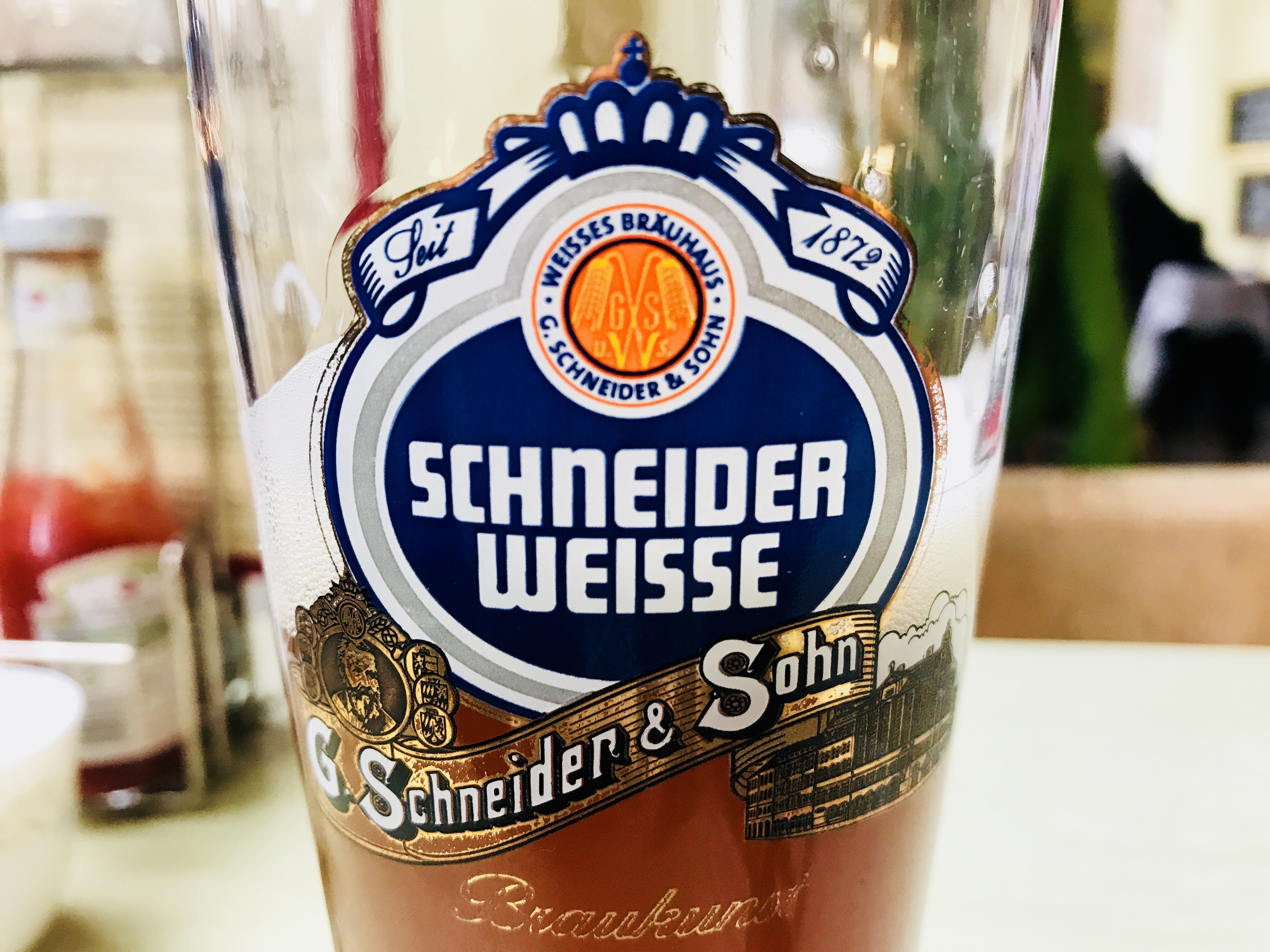 Pint of Schneider Weisse Tap 7 Mein Original, showing the logo. Taken at Cherry Reds Cafe Bar in Birmingham UK